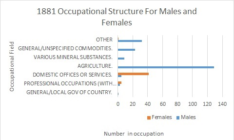 Bar chart showing the 1881 occupational structure of Roxwell